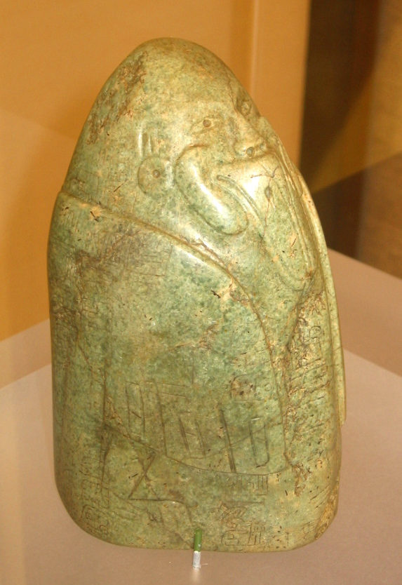 A side view of the Tuxtla Statuette